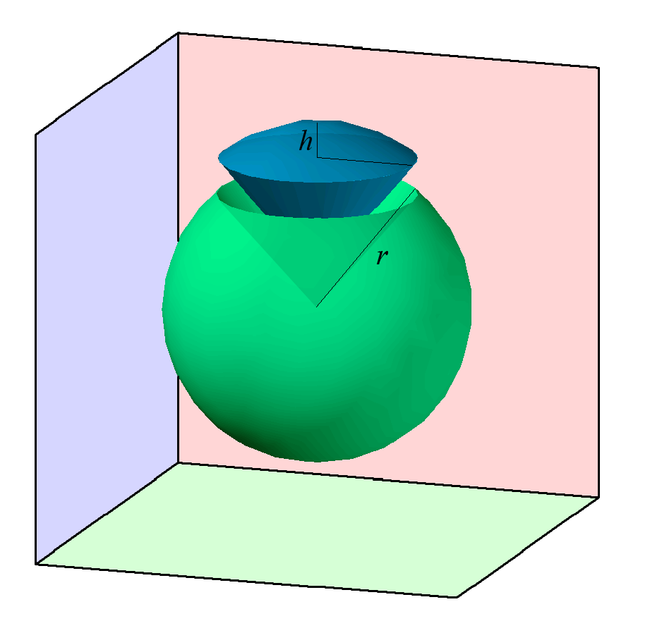 Spherical sector 3D